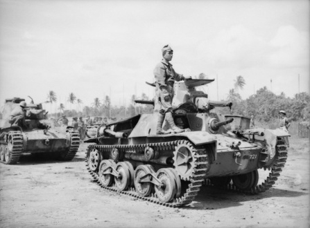 AWM Caption: Rapopo Airstrip, New Britain. A Japanese tank crew bringing a type 95 Ha-Go light tank out of the lines to hand over to Australian crews of 2/4 Armoured Regiment. A total of over 40 Japanese medium and light tanks were handed over. Japanese drivers drove the tanks back to Rabaul, with Australians as crew commanders.